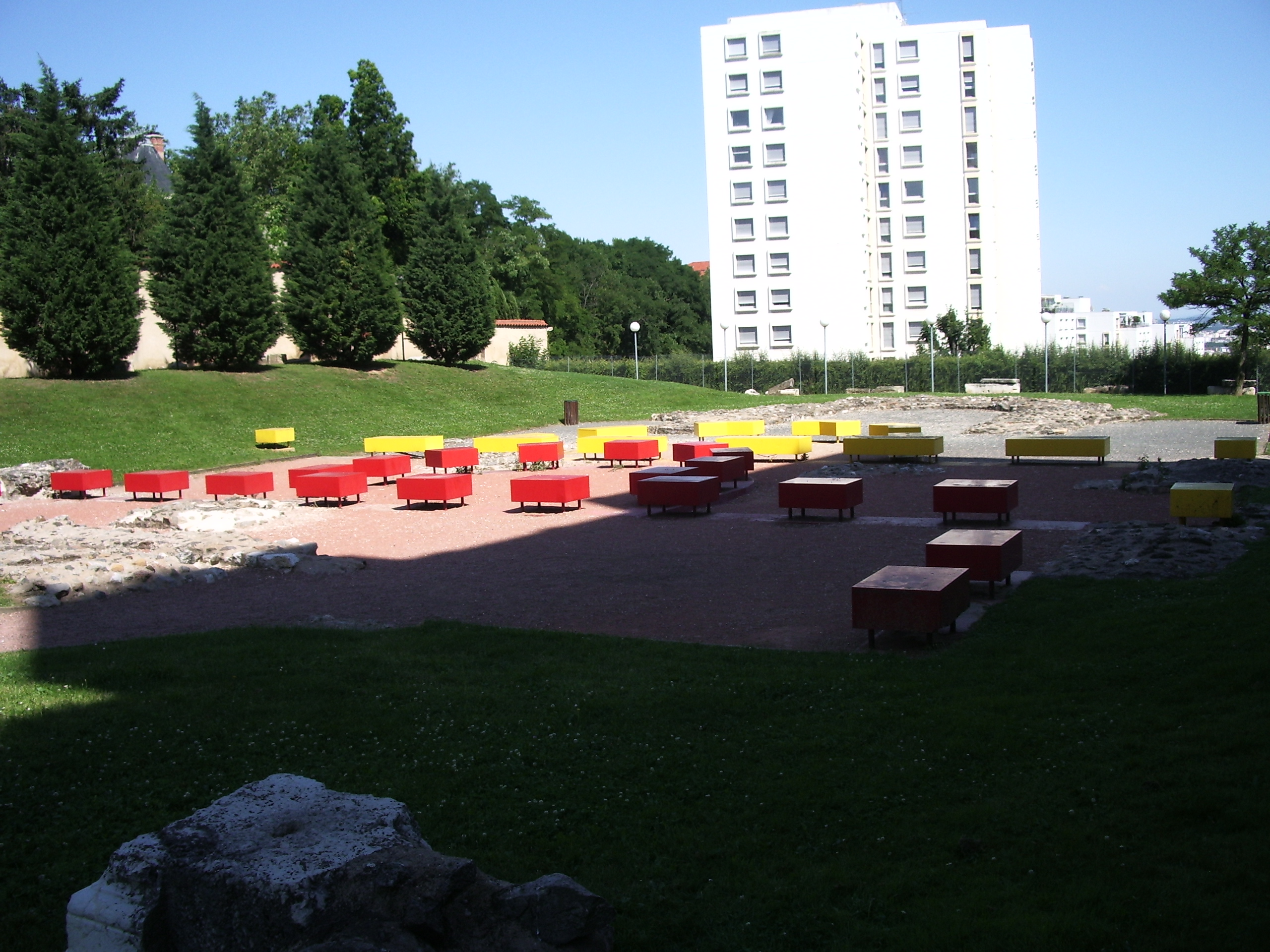 View of the ruins of the basilica Saint-Just of Lyon